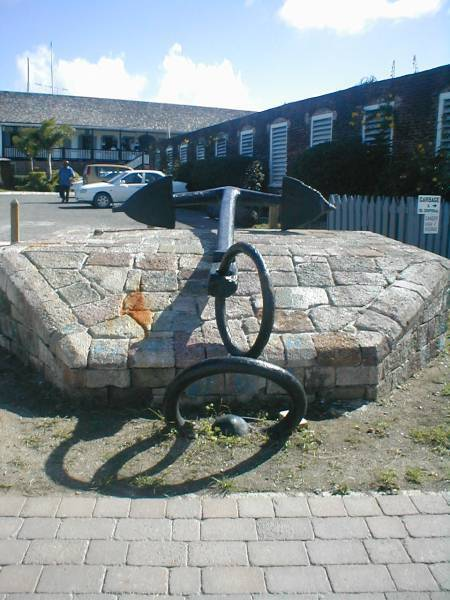 A ship's anchor, located at Nelson's Dockyard, Antigua.